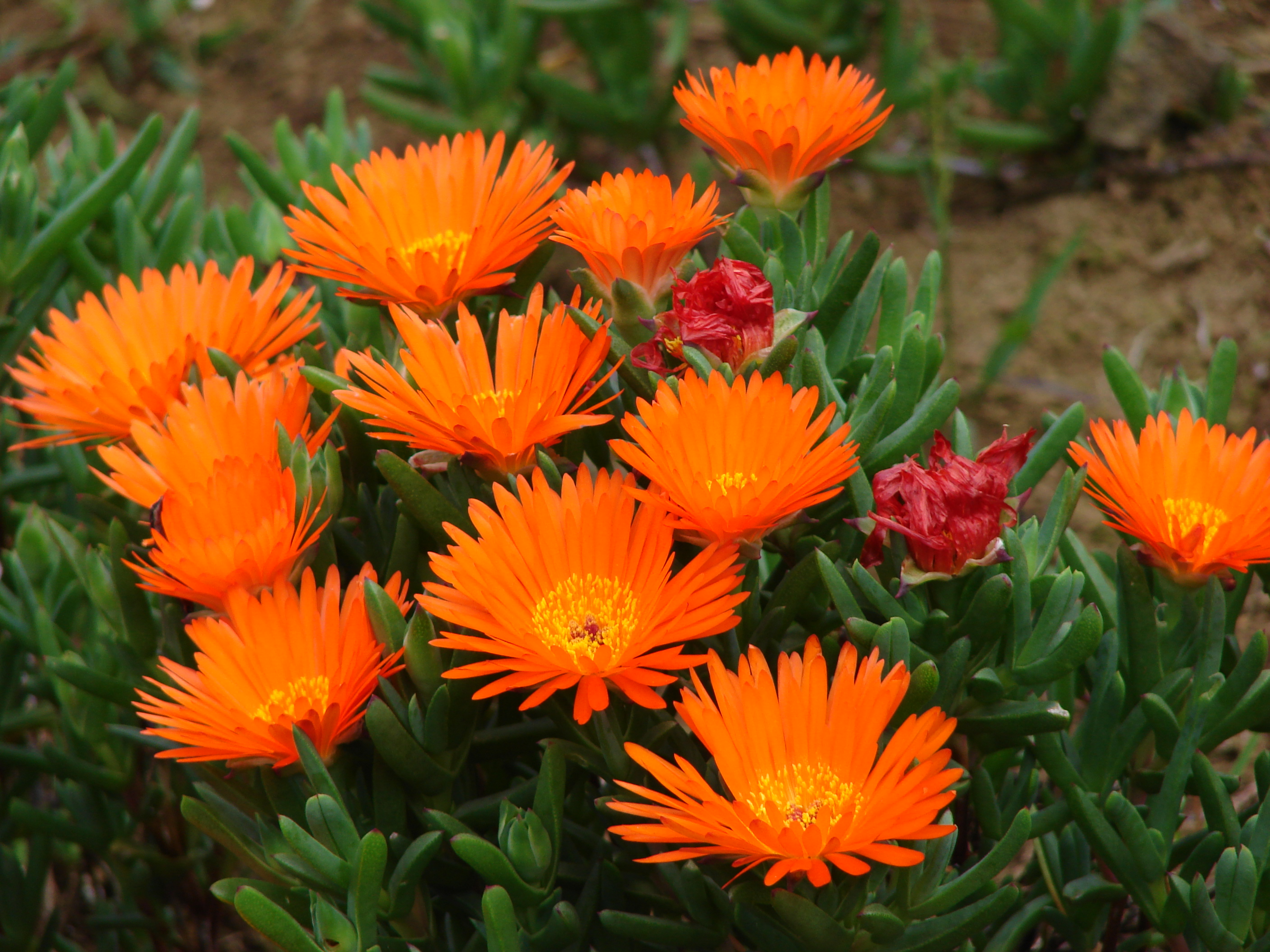 Lampranthus sp. (flowers). Location: Maui, Kula